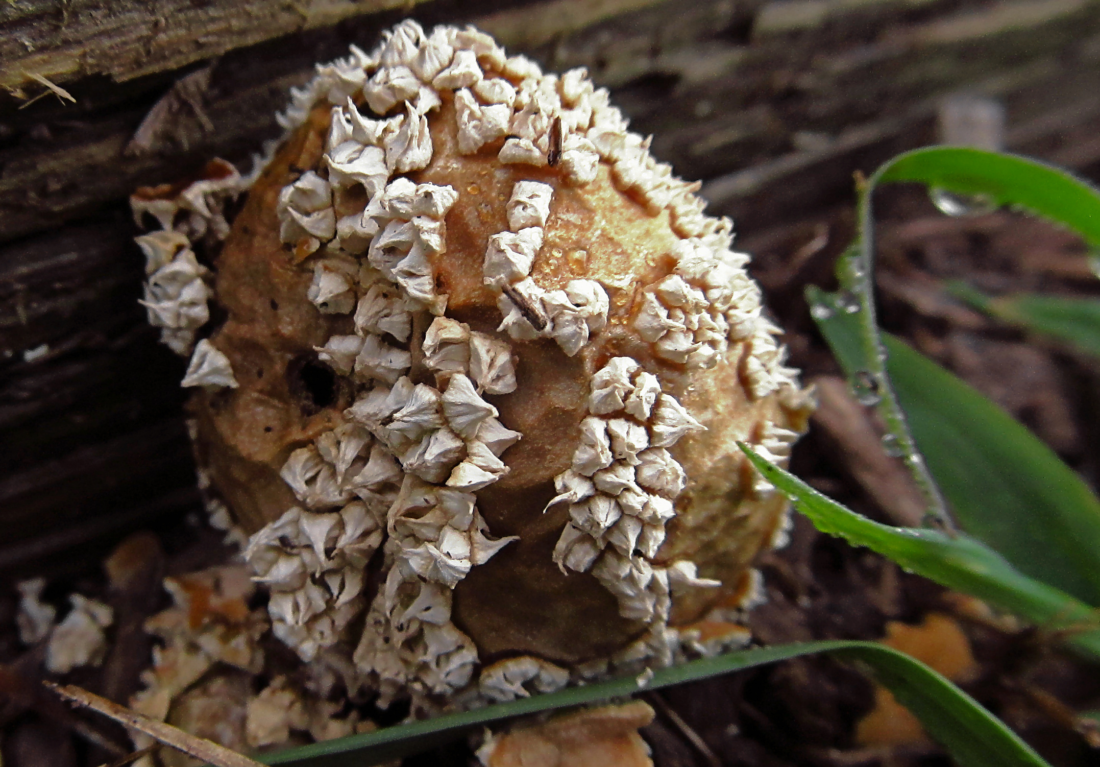 Lycoperdon marginatum Vittad. Image location: The Rock Creek Regional Park, Montgomery Co., Maryland, USA Growing in a mowed athletic field beside a creosoted timber and wood chips. Used references: MO, flicker For more information about this, see the observation page at Mushroom Observer.